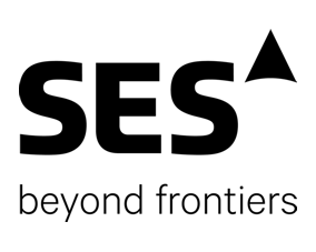 Logo for the company, SES S.A. introduced in 2016